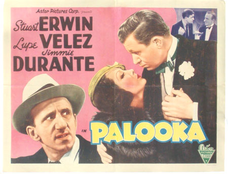 American film poster for the 1934 film Palooka, starring Stuart Erwin, Lupe Vélez, and Jimmy Durante.